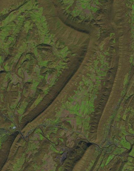 Landsat image of Snake Spring valley, a valley in Bedford County, Pennsylvania. The ridge at right is Tussey Mountain, and the ridge at left is Evitts Mountain. The Raystown Branch of the Juniata River is in the lower part of the image, and the town of Everett is in the lower right corner.